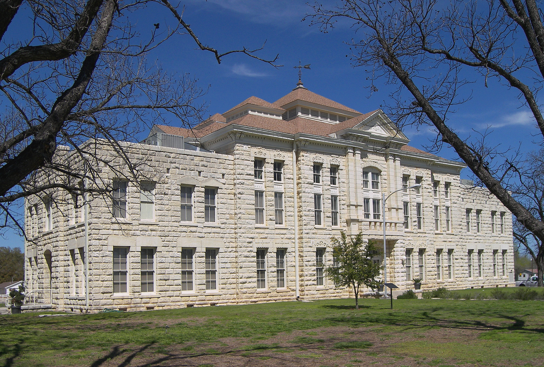 The Medina County Courthouse located at 1100 16th Street, Hondo, Texas, United States. The original building was completed in 1893. The two-story wings on both ends were added between 1939 and 1942. The courthouse was designated a Recorded Texas Historic Landmark in 1984.